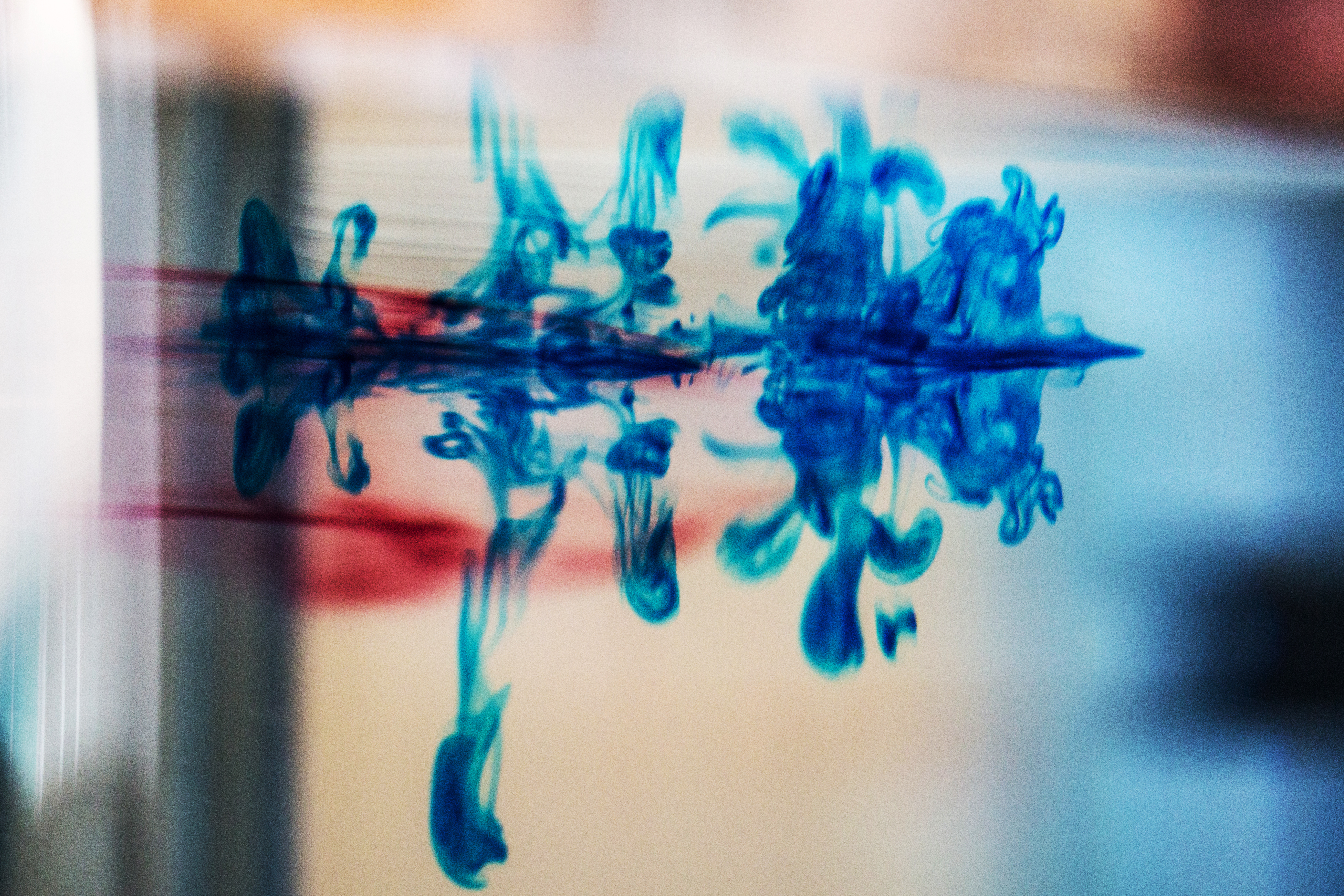 This summer school is aimed at Ph.D. students, postdocs and engineers with a background in mathematics, fluid mechanics or environmental science, who wish to learn more about environmental fluid dynamics. The school includes four « core » courses on : fundamentals of fluid dynamics, flow instabilities, environmental fluid dynamics & cryosphere, and atmosphere & ocean. In addition to those core lectures given each year, applied lectures on more specific topics will also be offered with topics chosen every year according to the invited lecturers. Possible topics include: renewable energies, bioconvection, physical oceanography, geological flows, climate change. The originality of this school, compared to other similar events, is that the lectures are accompanied by numerous numerical and experimental afternoon sessions, where students have the opportunity to get hands-on experience in the physical processes studied in the lectures. Crédit photographique : © École polytechnique - J.Barande